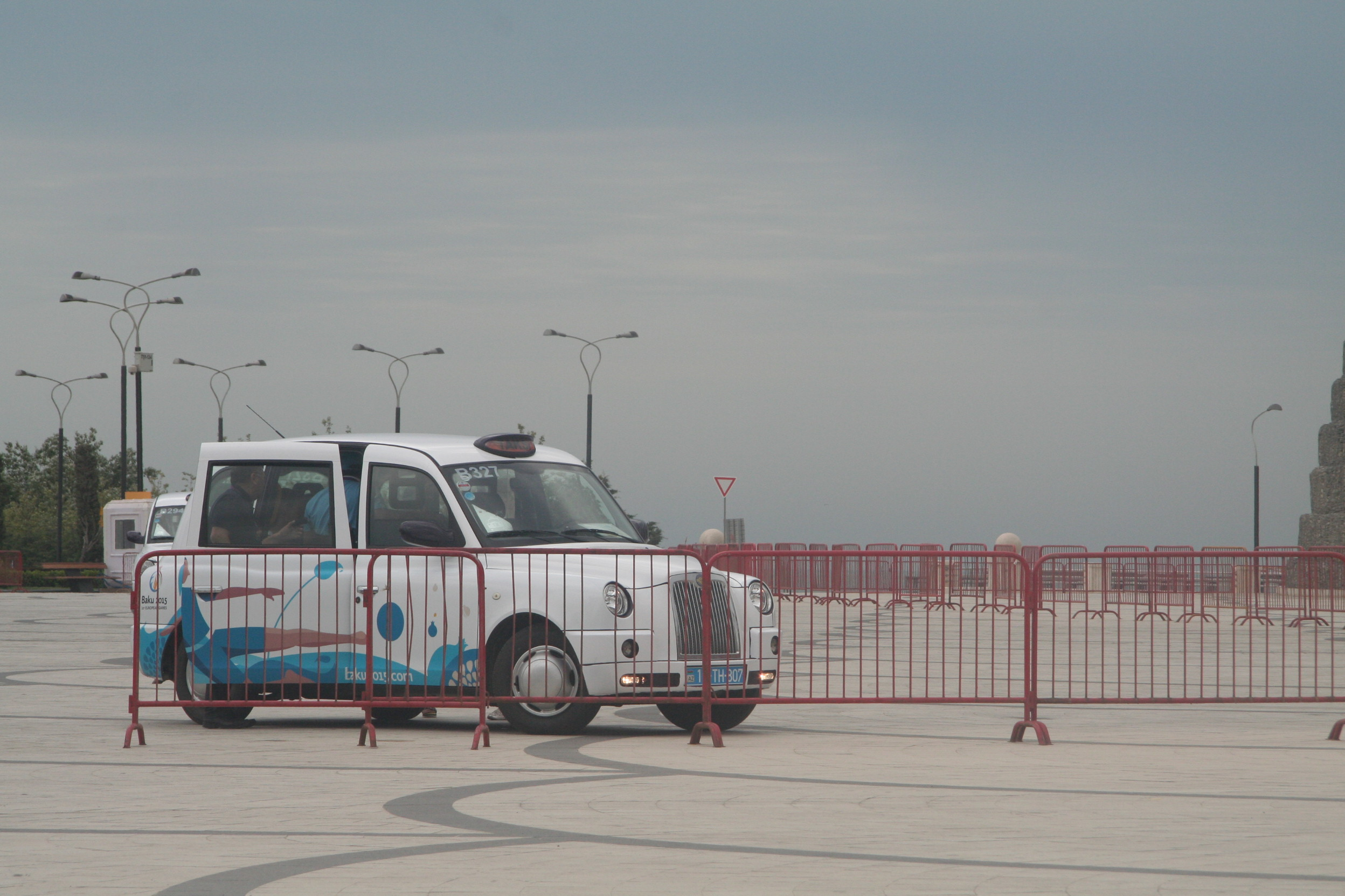 White London Taxi near Baku Crystall Hall during 2015 European Games